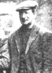 Lookout Reginald Robinson Lee. Served on the Titanic. Died in 1913.